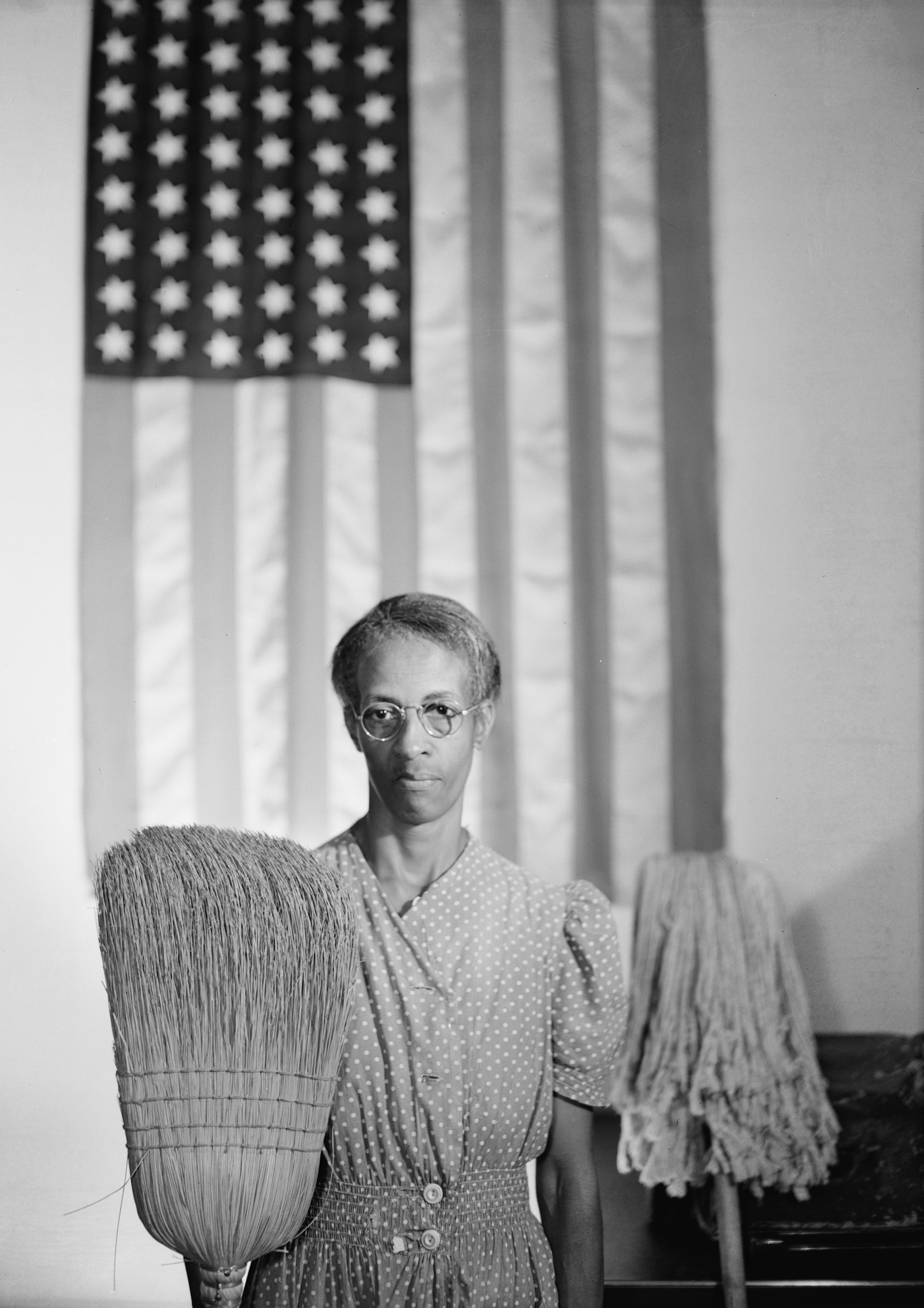 Gordon Parks' American Gothic. Portrait of government cleaning woman Ella Watson.